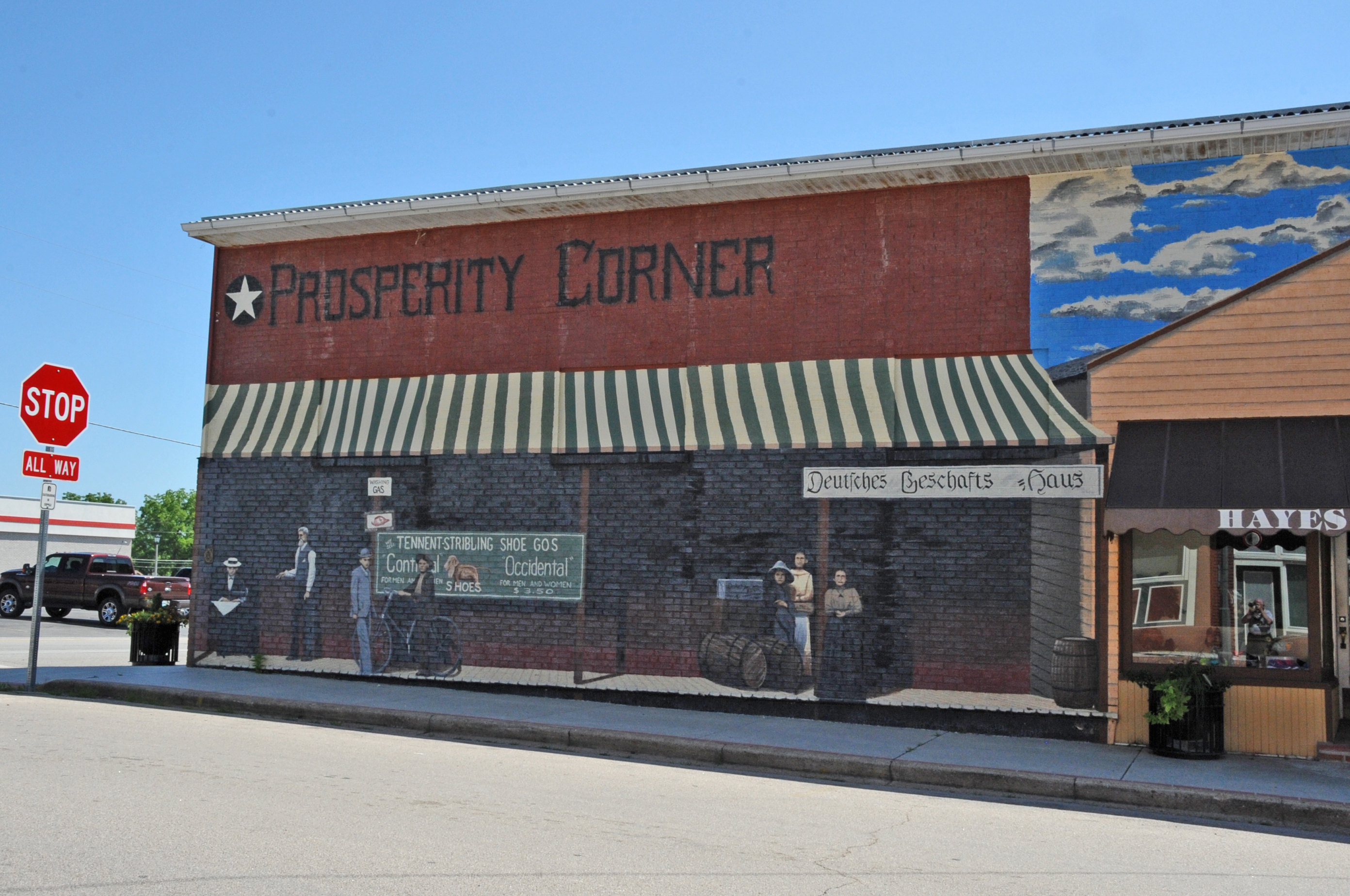 Key site in the district; here in the 1930s people came to do business of just pass the time of day. Hayes Shoe Store still stands in its original site. Numerous murals are painted on the building's walls.